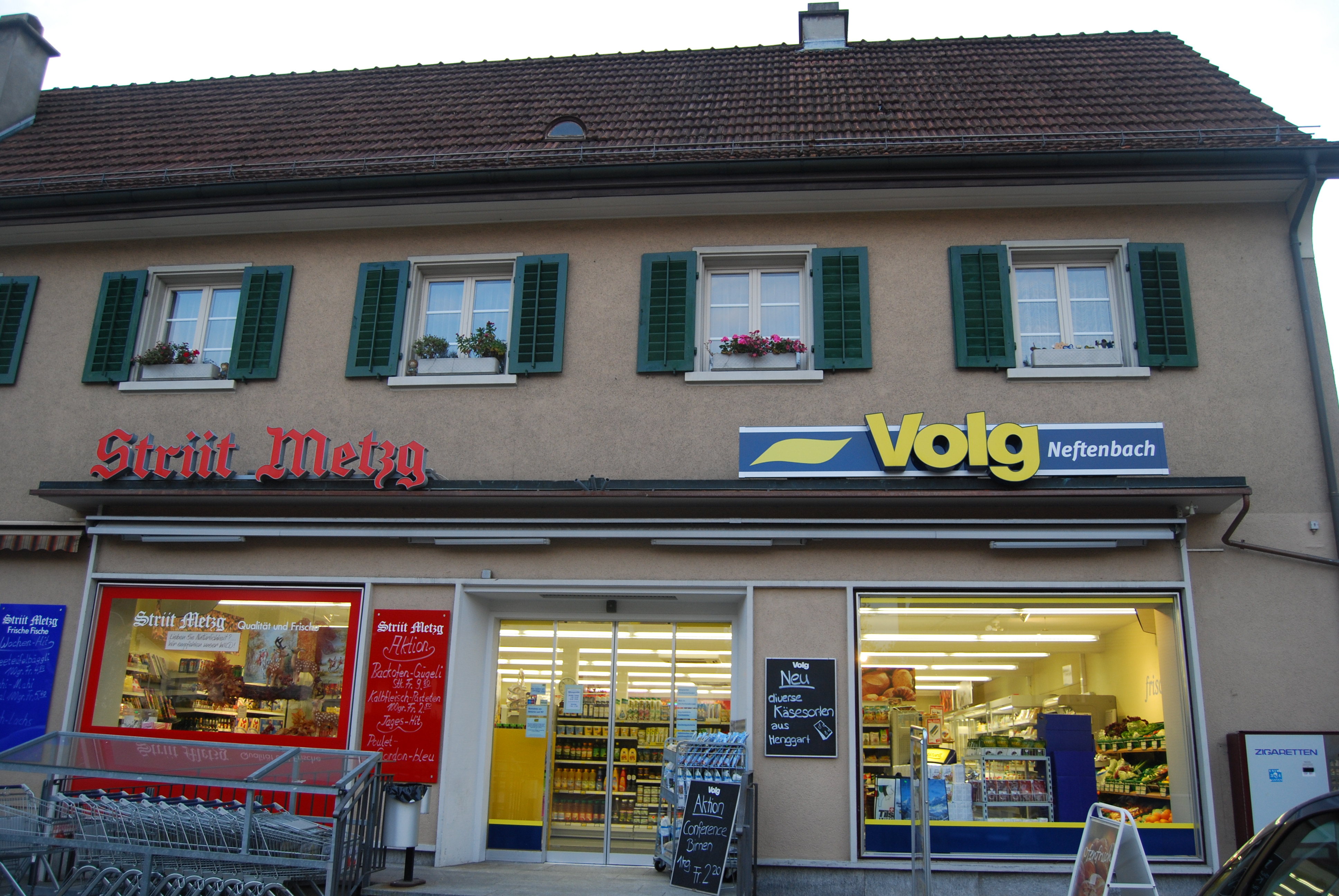 Butcher's shop Striit and Volg Supermarket at Neftenbach, canton of Zürich, SwitzerlandEsperanto: Buĉejo Striit kaj Volg-Supermerkato en Neftenbach, Kantono Zuriko, Svislando